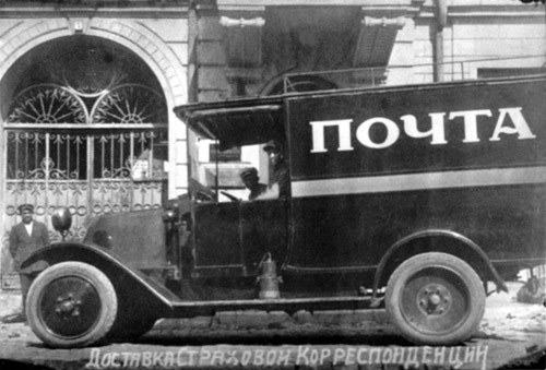 Mail delivery car in 30-years of the 20th century